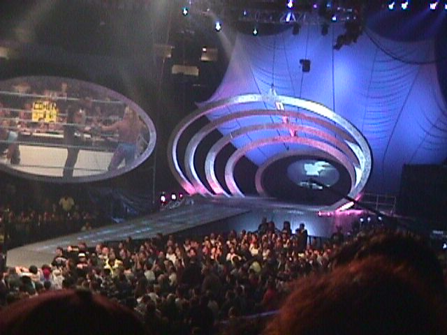 WWF (WWE) Smackdown photo October 7, 1999 Nassau Coliseum - Long Island, NY.